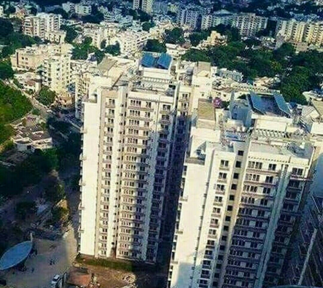 Kanpur's skyline